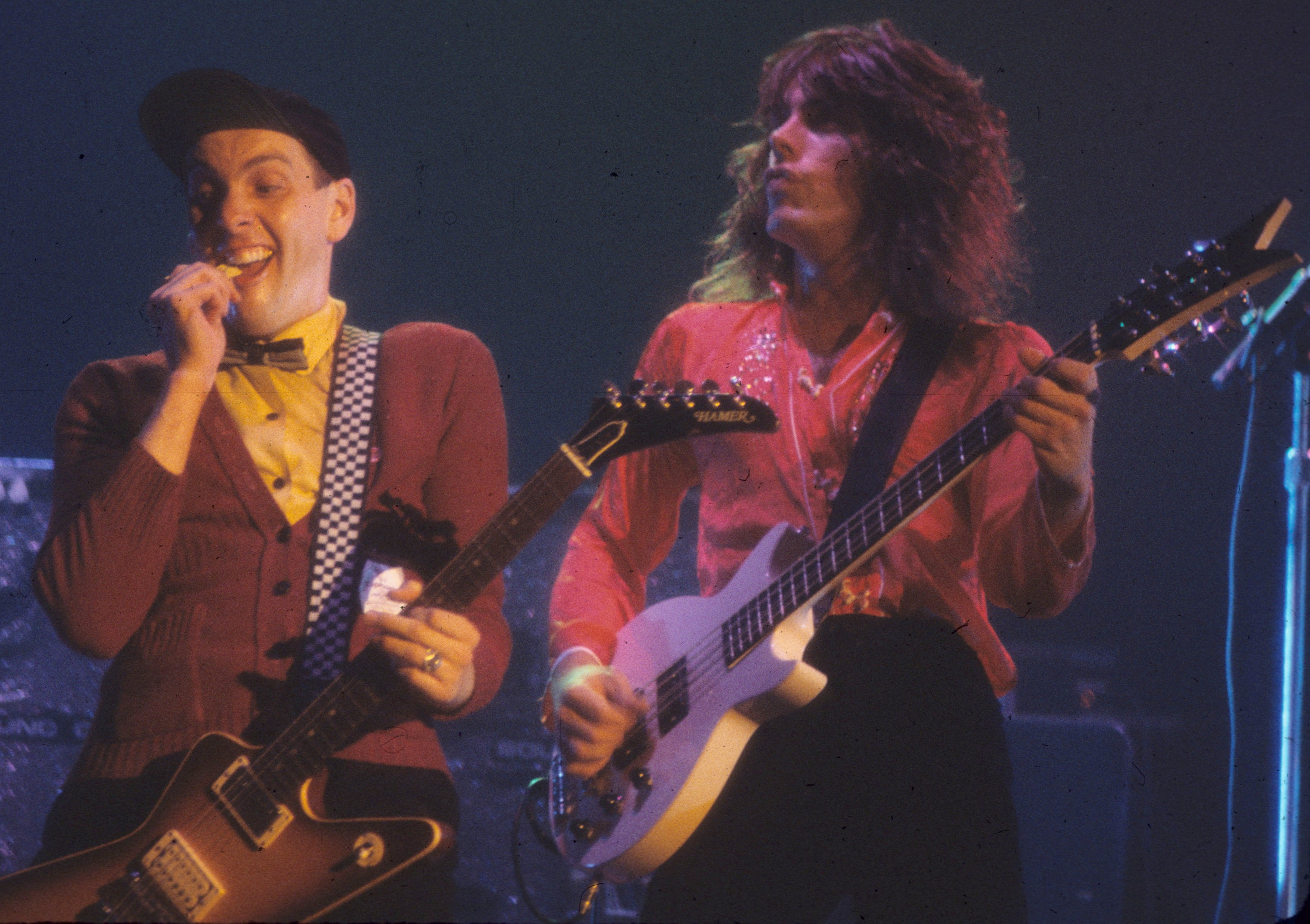 Rick Nielsen and Tom Petersson of Cheap Trick performing in in New Haven, CT in 1977